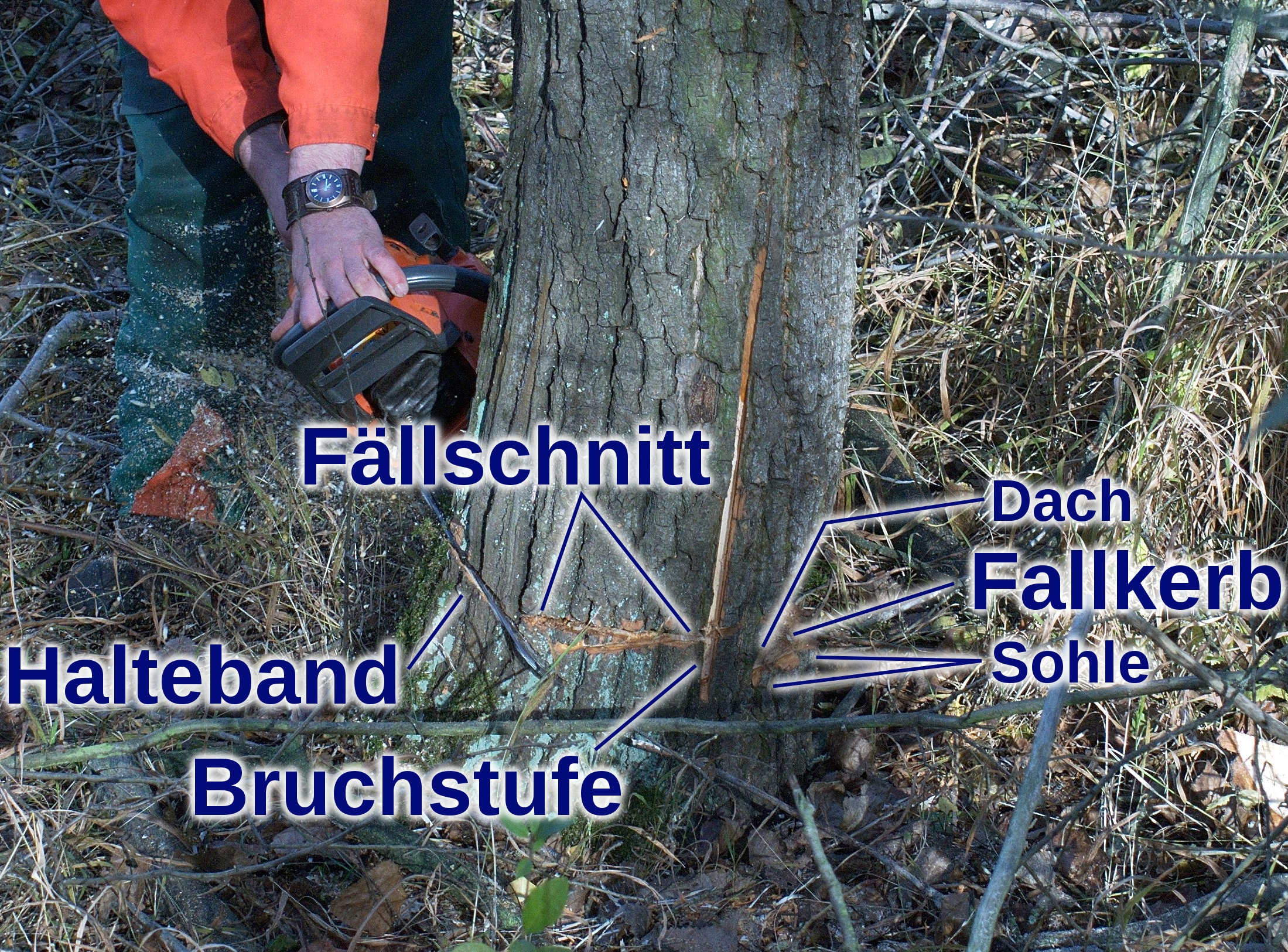 Cutting an pre-inclined poplar tree.